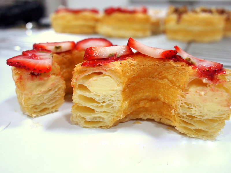 Cronut